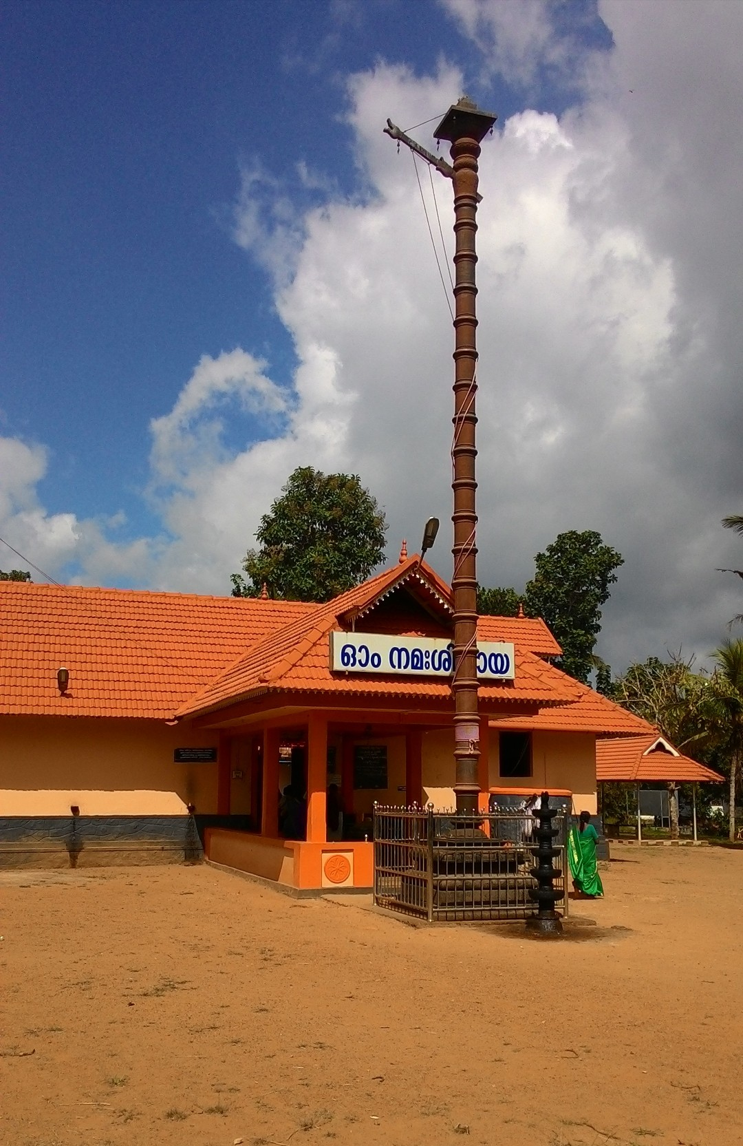 Thamarakudy Mahadevar Temple